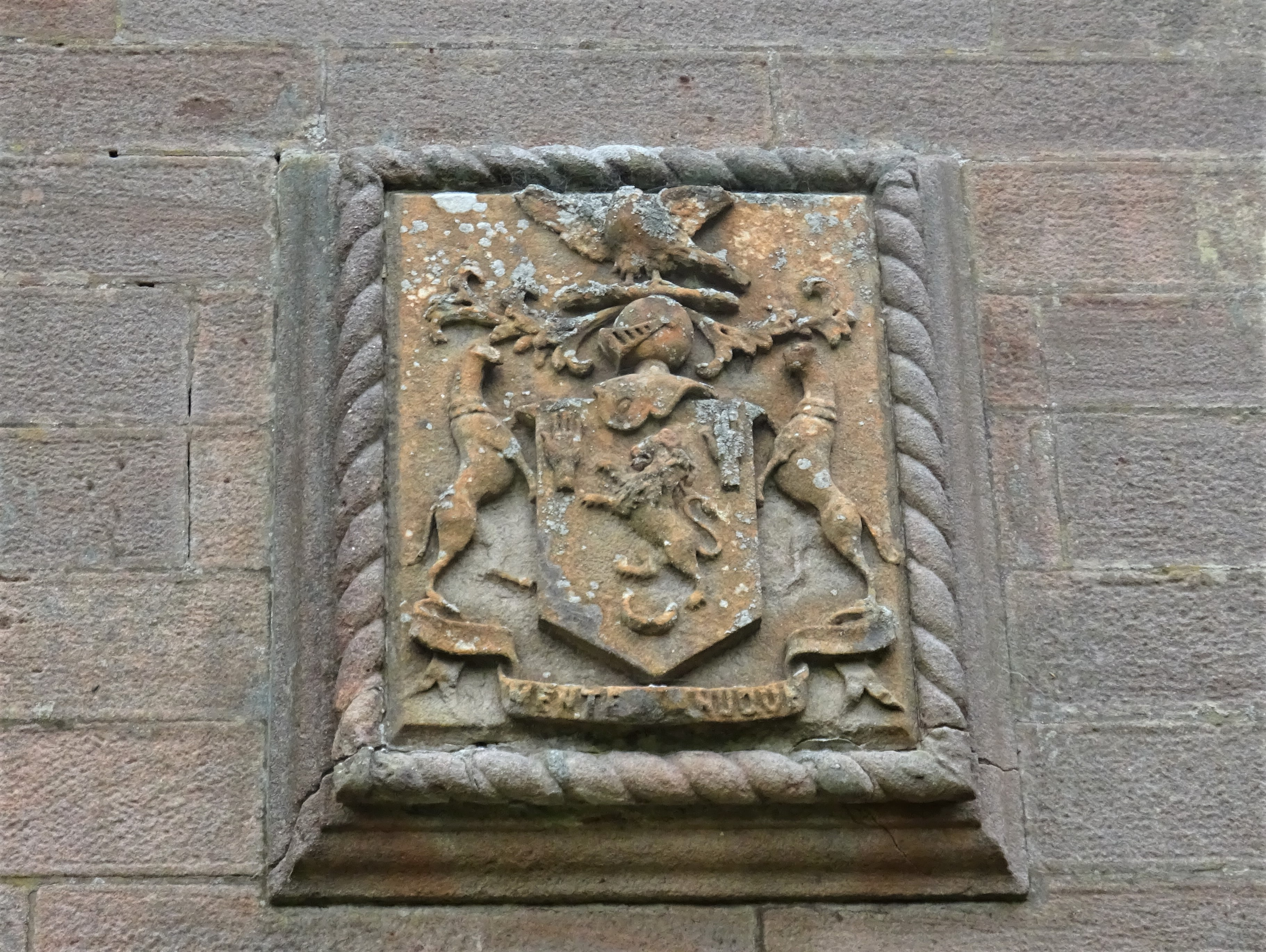 Farquhar Coat of arms - Gilmilnscroft House , Sorn, East Ayrshire.